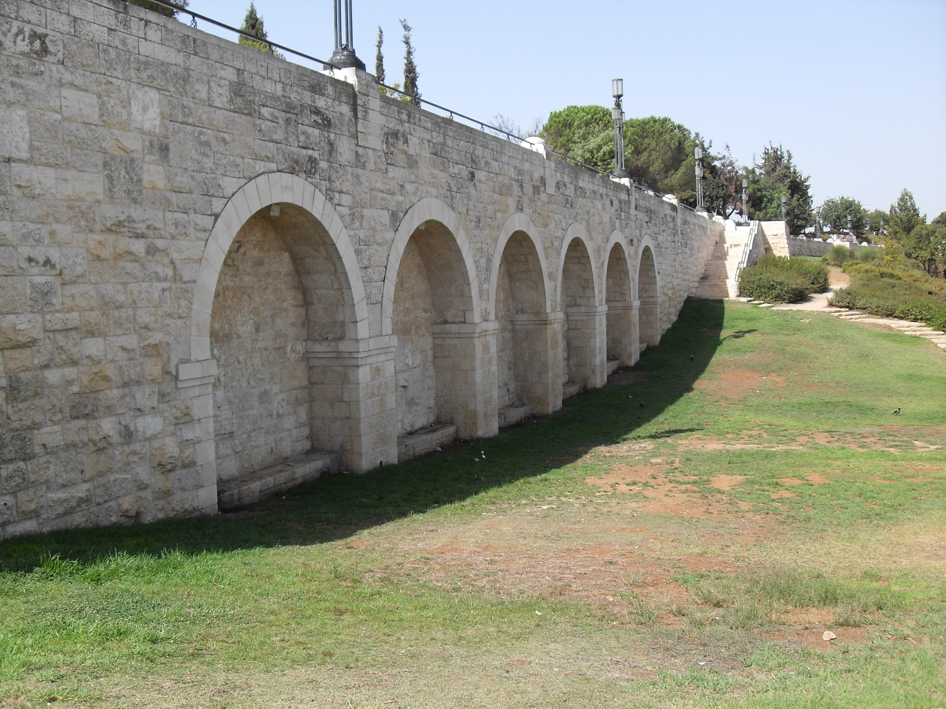 South Jerusalem - Talpiot - Haas Promenade